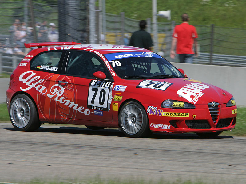 Alfa Romeo 147, driven by Markus Lungstrass on Sachsenring Circuit.